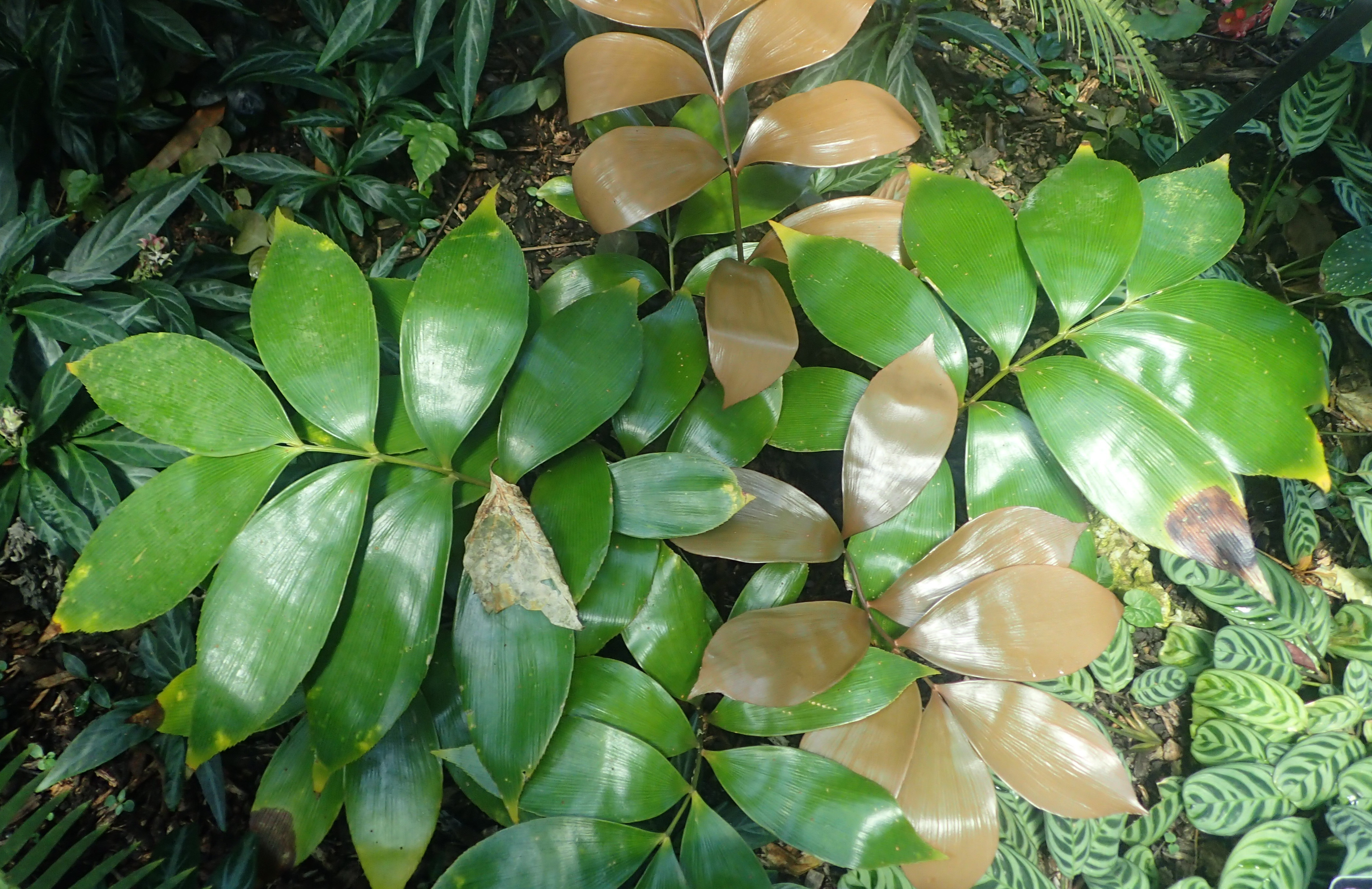 Zamia purpurea in the Missouri Botanical Garden, St. Louis